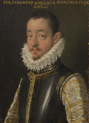 Portrait of Ferrante Gonzaga (1550-1605)